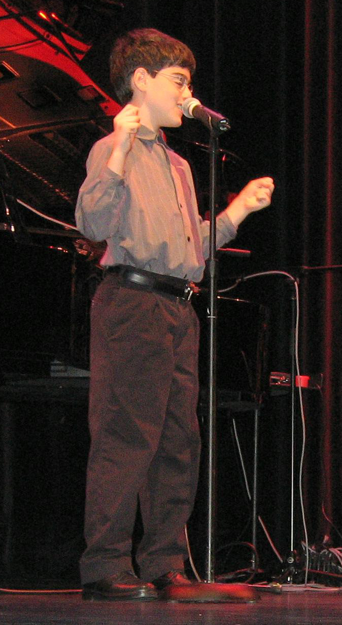 Matt Savage, an American autistic savant musician.